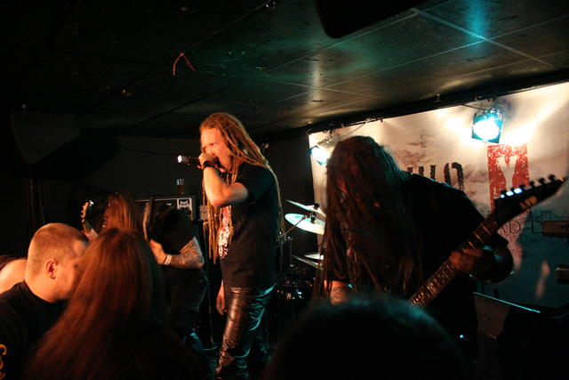 Deletion live at Belsepub in Gothenburg, 2006.